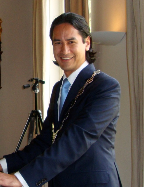 Harald Bergmann, mayor of Albrandswaard (South-Holland, the Netherlands). Speech in Rhoon Castle, 14 may 2010.